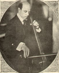 Pablo Casals playing cello.